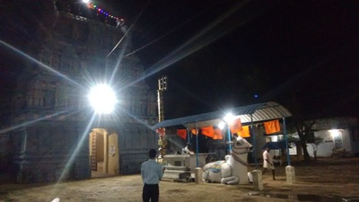 Ambar brahmapurisvarar temple அம்பல் பிரம்மபுரீஸ்வரர் கோயில்